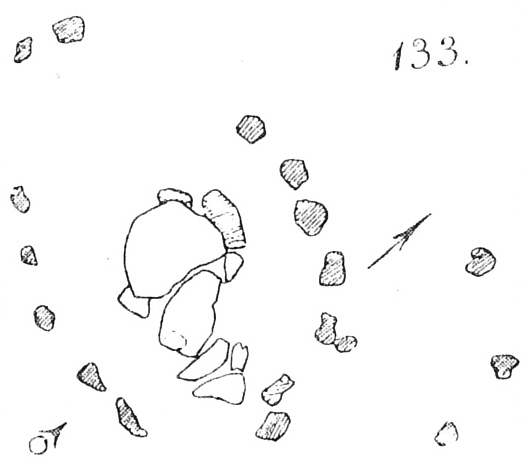 Outline of the dolmen Lüdelsen 2, Saxony-Anhalt